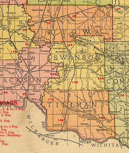 Image is a detail from a circa 1912 map submitted by User:66.189.197.68; which is in the public domain. However link was deleted by bot User:Shadowbot as detected spam; which does not appear to be the case.